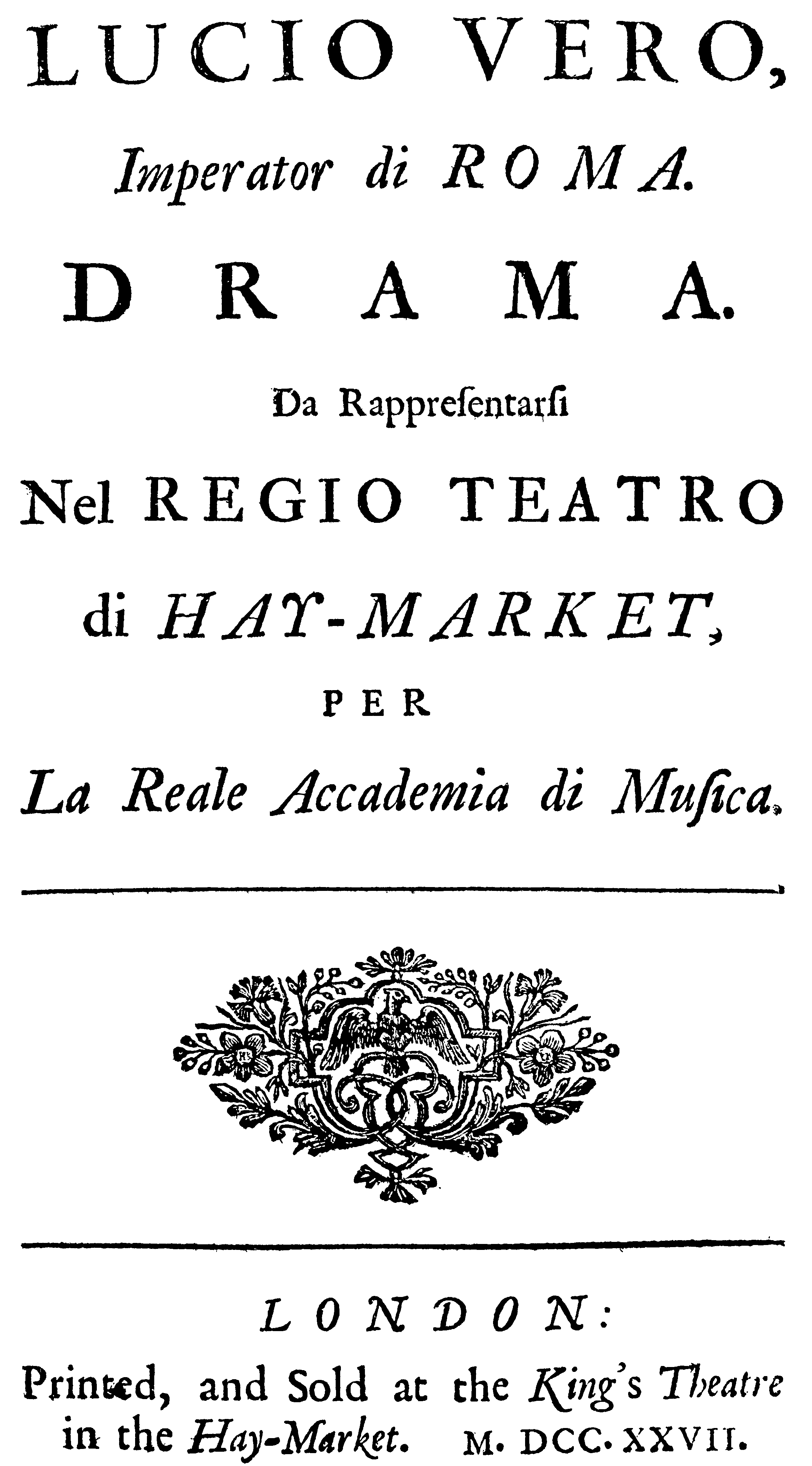 Attilio Ariosti - Lucio Vero - titlepage of the libretto - London 1727